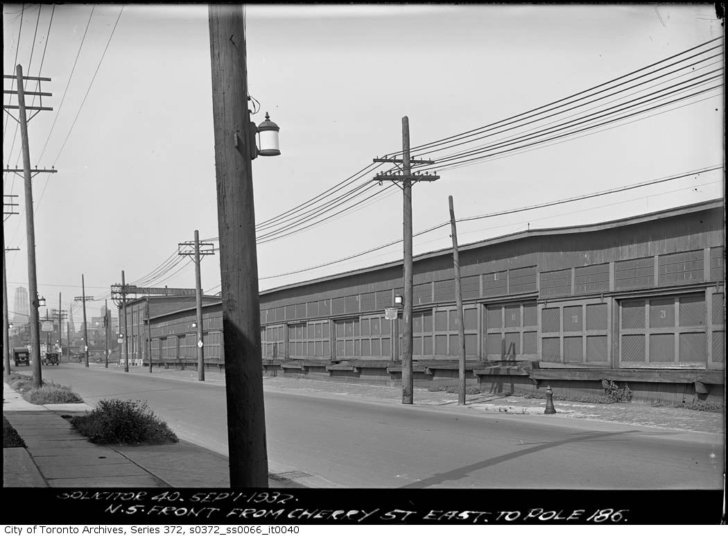 North side of Front Street, east of Cherry, looking west in 1932, showing CNR freight yard and office Original caption: “North south front fron Cherry Street East to Pole 186”